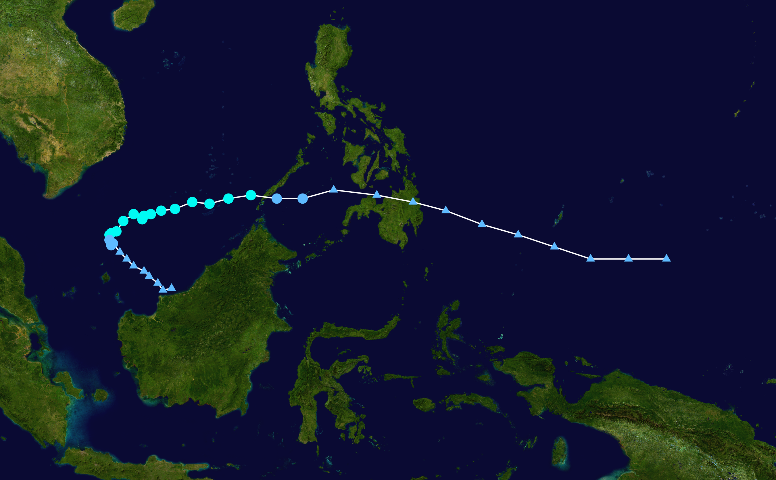 Track map of Tropical Storm Sonamu of the 2013 Pacific typhoon season. The points show the location of the storm at 6-hour intervals. The colour represents the storm's maximum sustained wind speeds as classified in the Saffir–Simpson scale (see below), and the shape of the data points represent the nature of the storm, according to the legend below. Saffir–Simpson scale Tropical depression≤38 mph≤62 km/h Category 3111–129 mph178–208 km/h Tropical storm39–73 mph63–118 km/h Category 4130–156 mph209–251 km/h Category 174–95 mph119–153 km/h Category 5≥157 mph≥252 km/h Category 296–110 mph154–177 km/h Unknown Storm type Tropical cyclone Subtropical cyclone Extratropical cyclone / Remnant low / Tropical disturbance / Monsoon depression